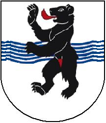 Coat of arms of Urnäsch, Canton of Appenzell Ausserrhoden, Switzerland